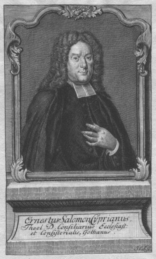 Portrait of Ernst Salomon Cyprian, copper engraving, picture: 144x86 mm